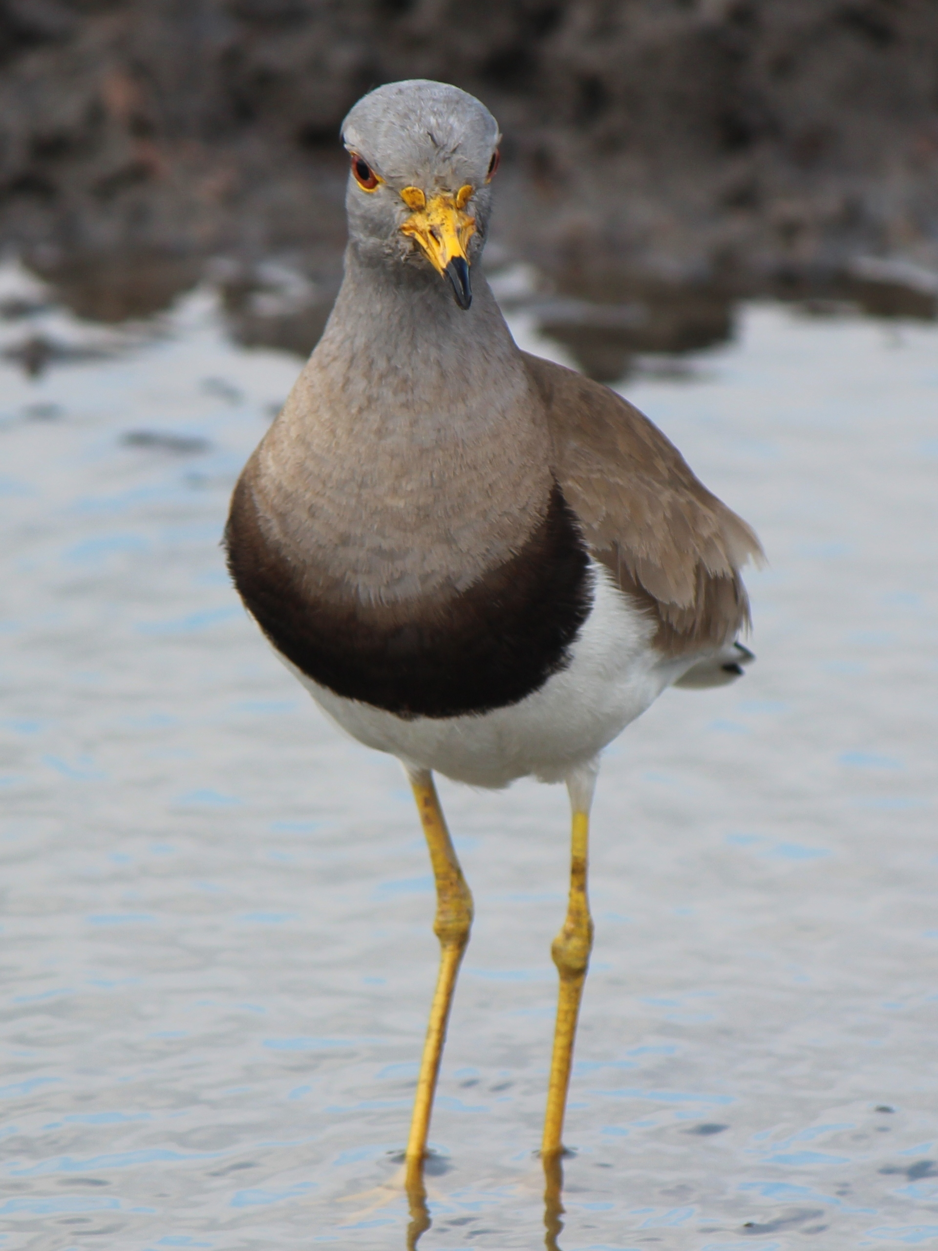 Grey-headed Lapwing (Vanellus cinereus), in Japan.